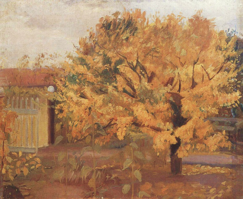 Pear Tree in Ancher's Front Yard (Pæretræ forrest i Anchers have=, painting by Anna Ancher, now in private collection